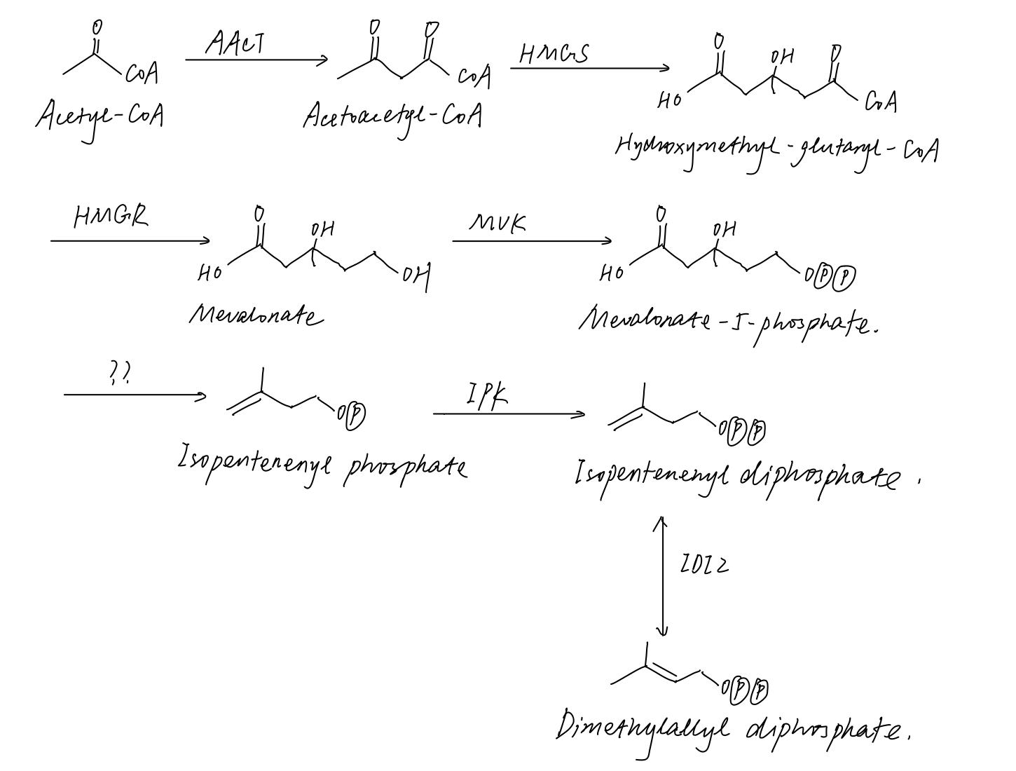 the alternate MVA pathway in archaea used to synthesize isoprenoid side chains